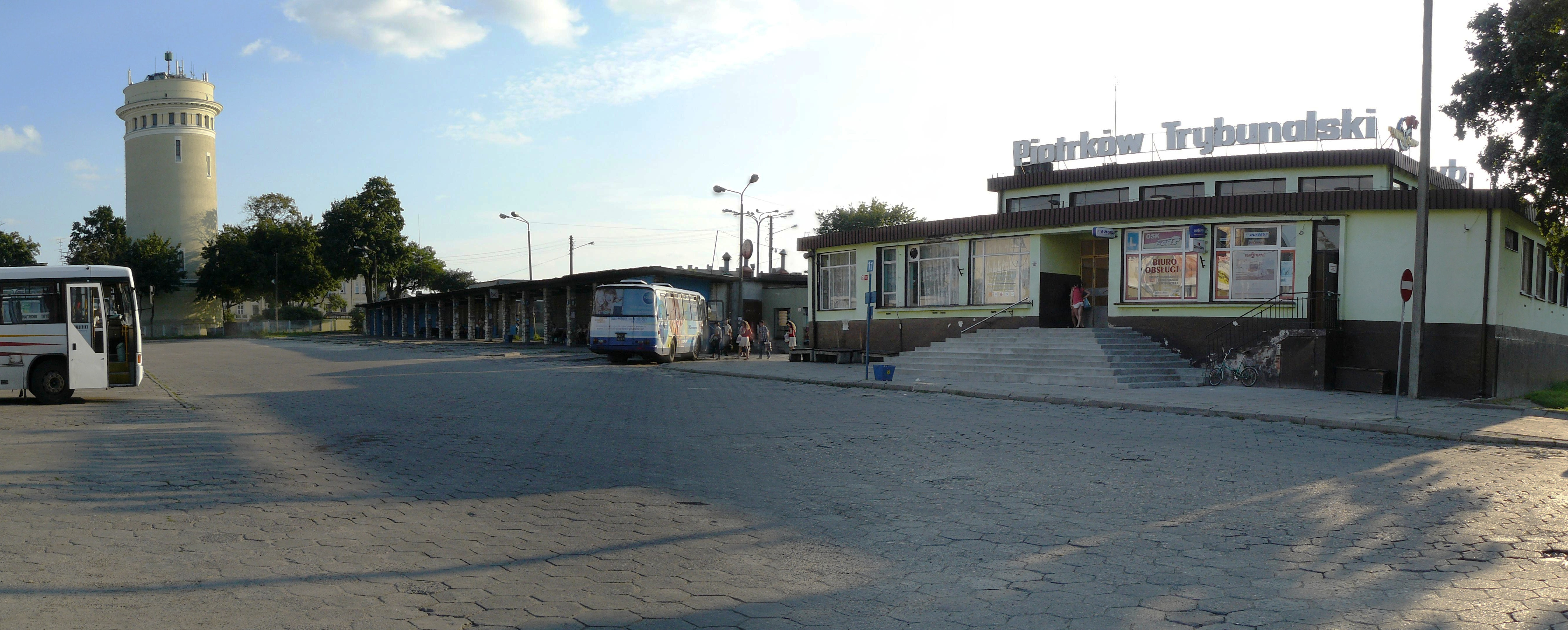 Bus station in Piotrkow Trybunalski. On the left water tower